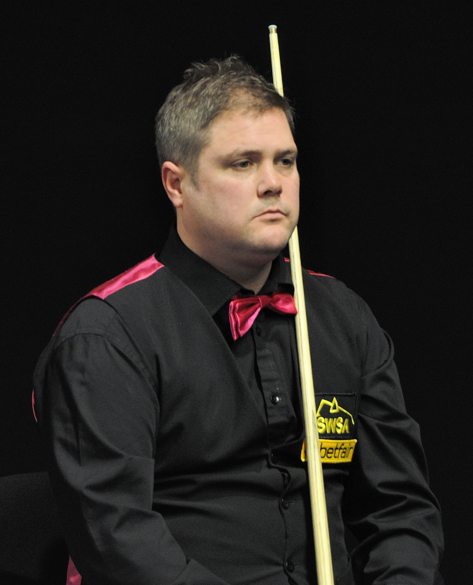 Picture taken in Berlin during the Snooker German Masters in 2013. Robert Milkins.